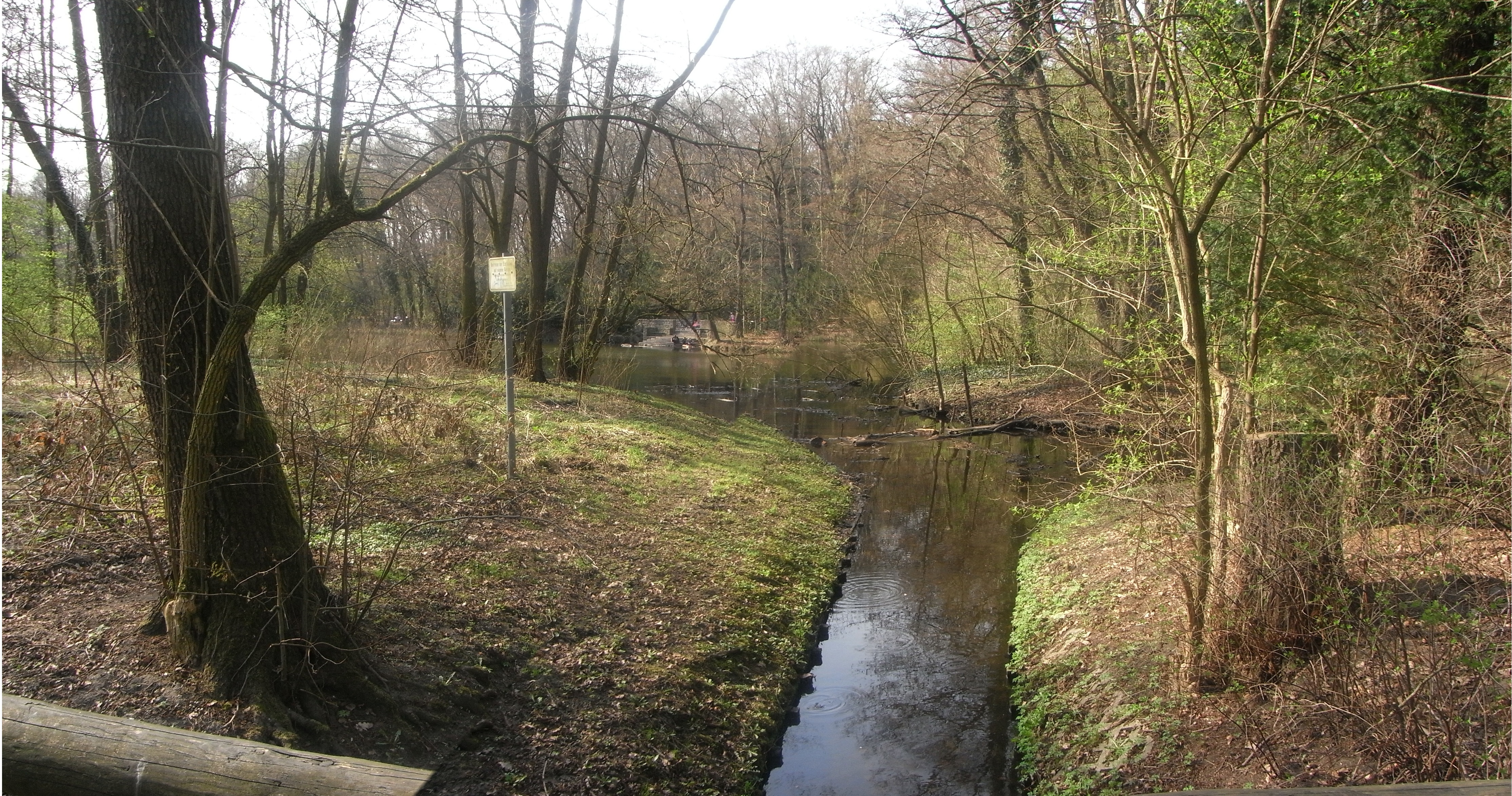 Junction of Packereigraben into Steinbergsee in Berlin